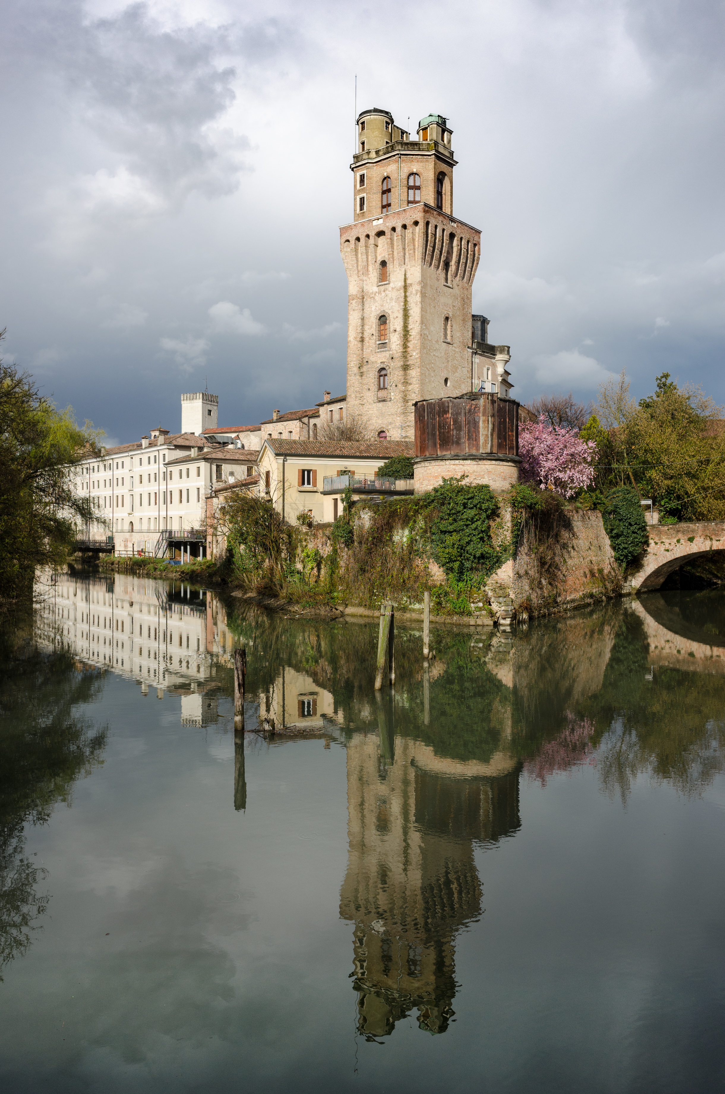 Historical observatory "La Specola" in Padova, Italy